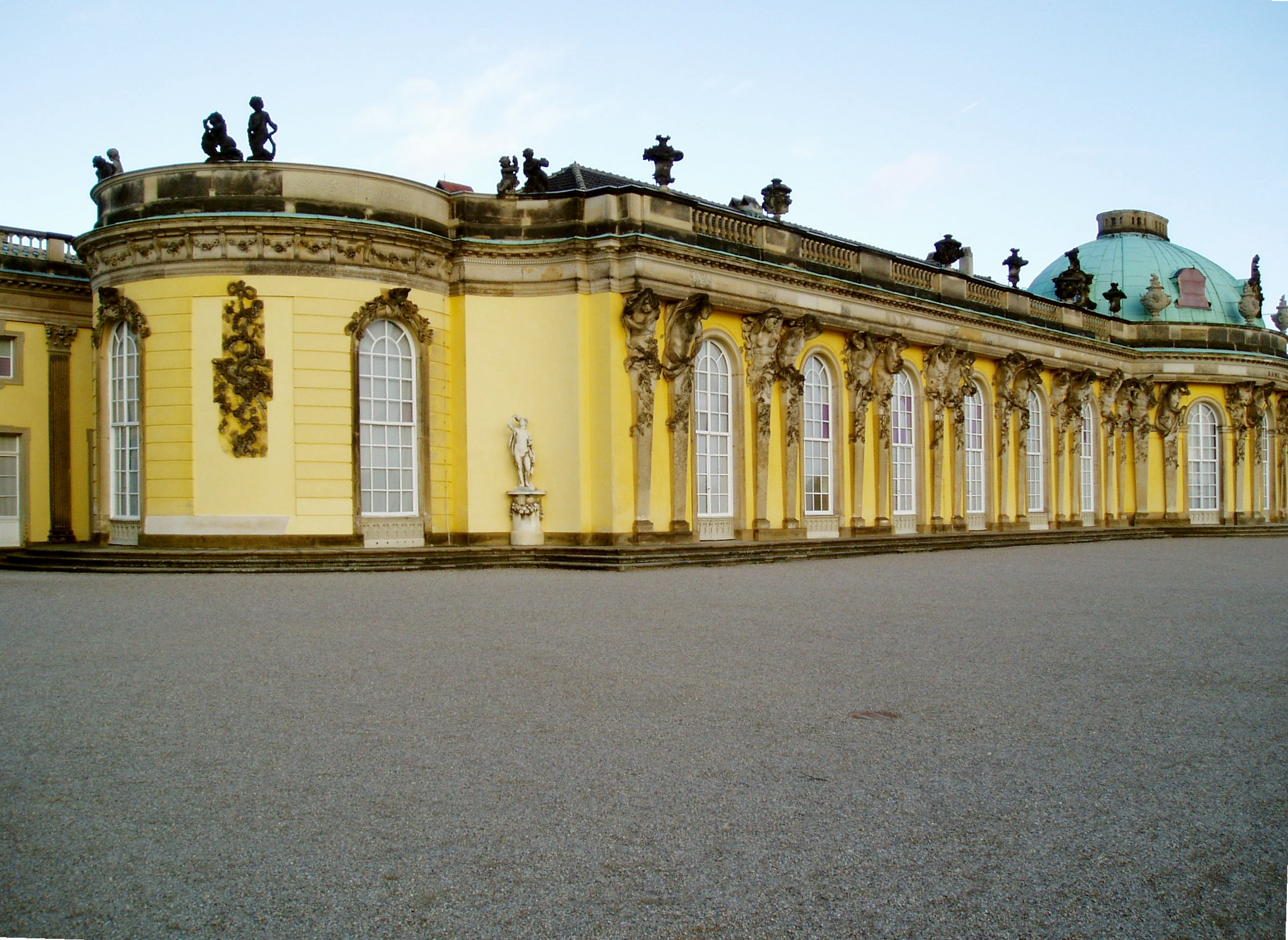 Sanssouci, Potsdam, Germany